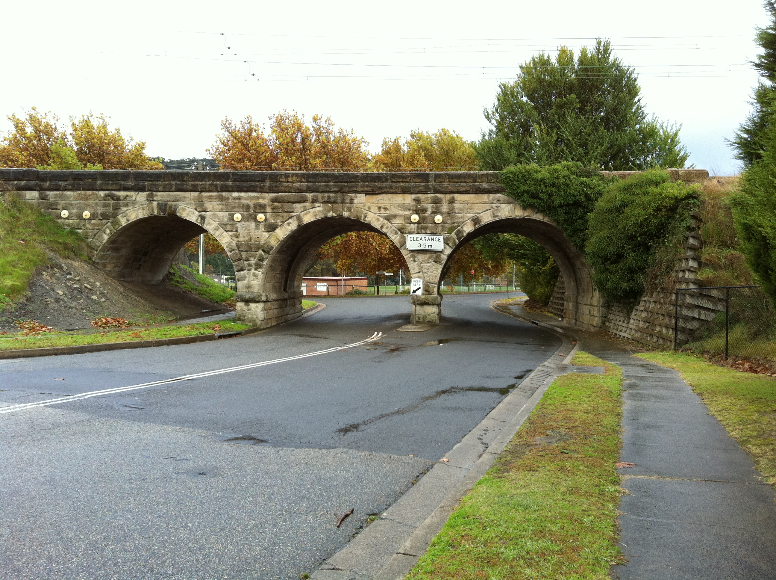 James St Bridge is a heritage listed sandstone viaduct still carrying the main western railway in Lithgow